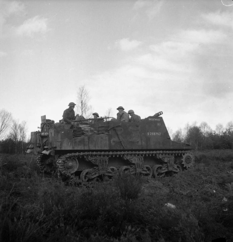 The British Army in North-west Europe 1944-45 Sexton self-propelled gun of 147th (Essex Yeomanry) Field Regiment, the first Royal Artillery unit to fire its guns in Germany, 21 November 1944.